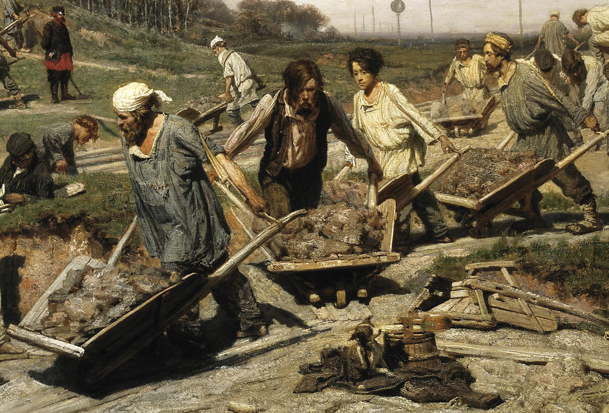 Repair work on the railway (painting by Konstantin Savitsky)